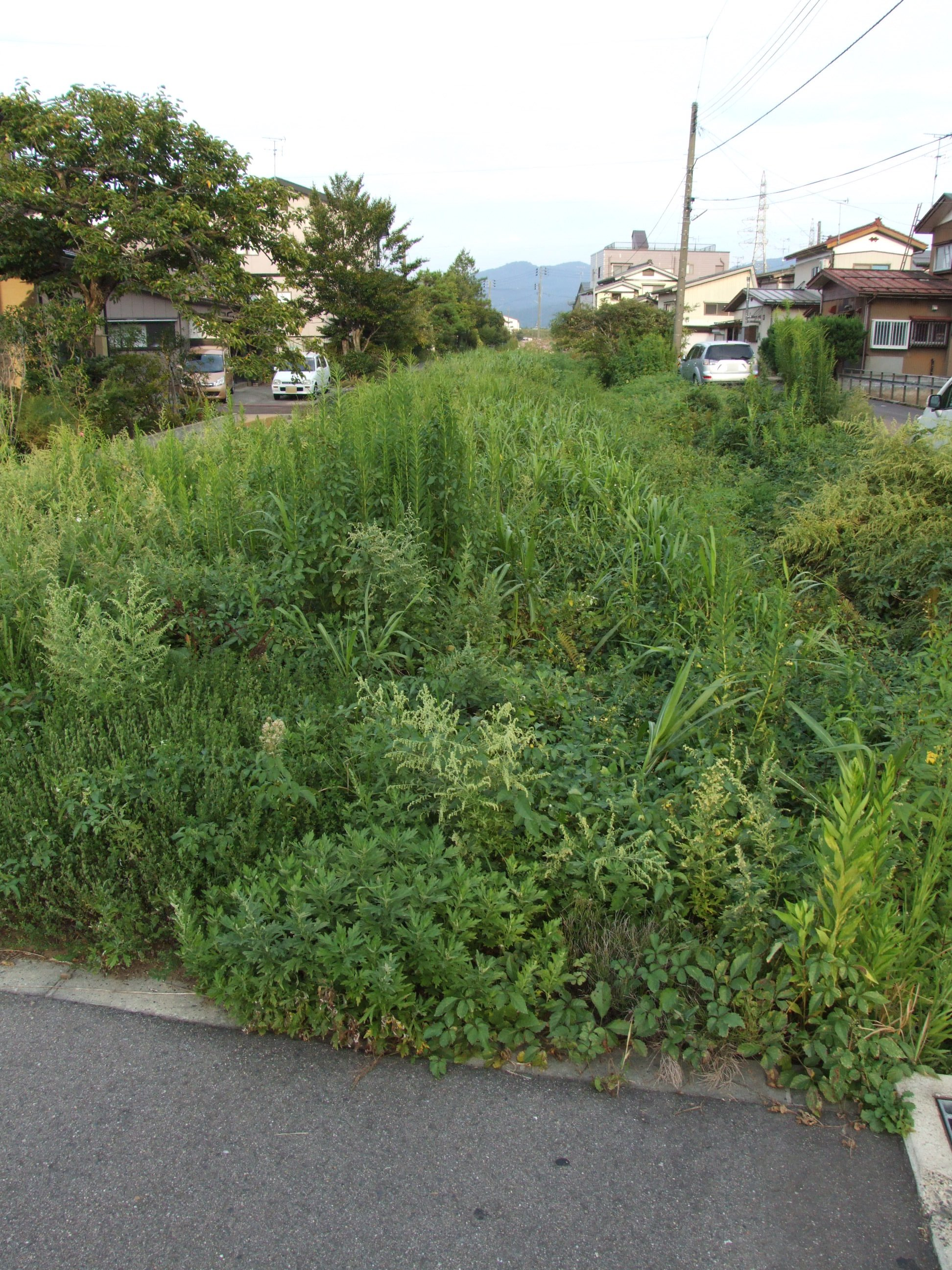 Remains of Shimo-niibo Station Tochio Line in 2011